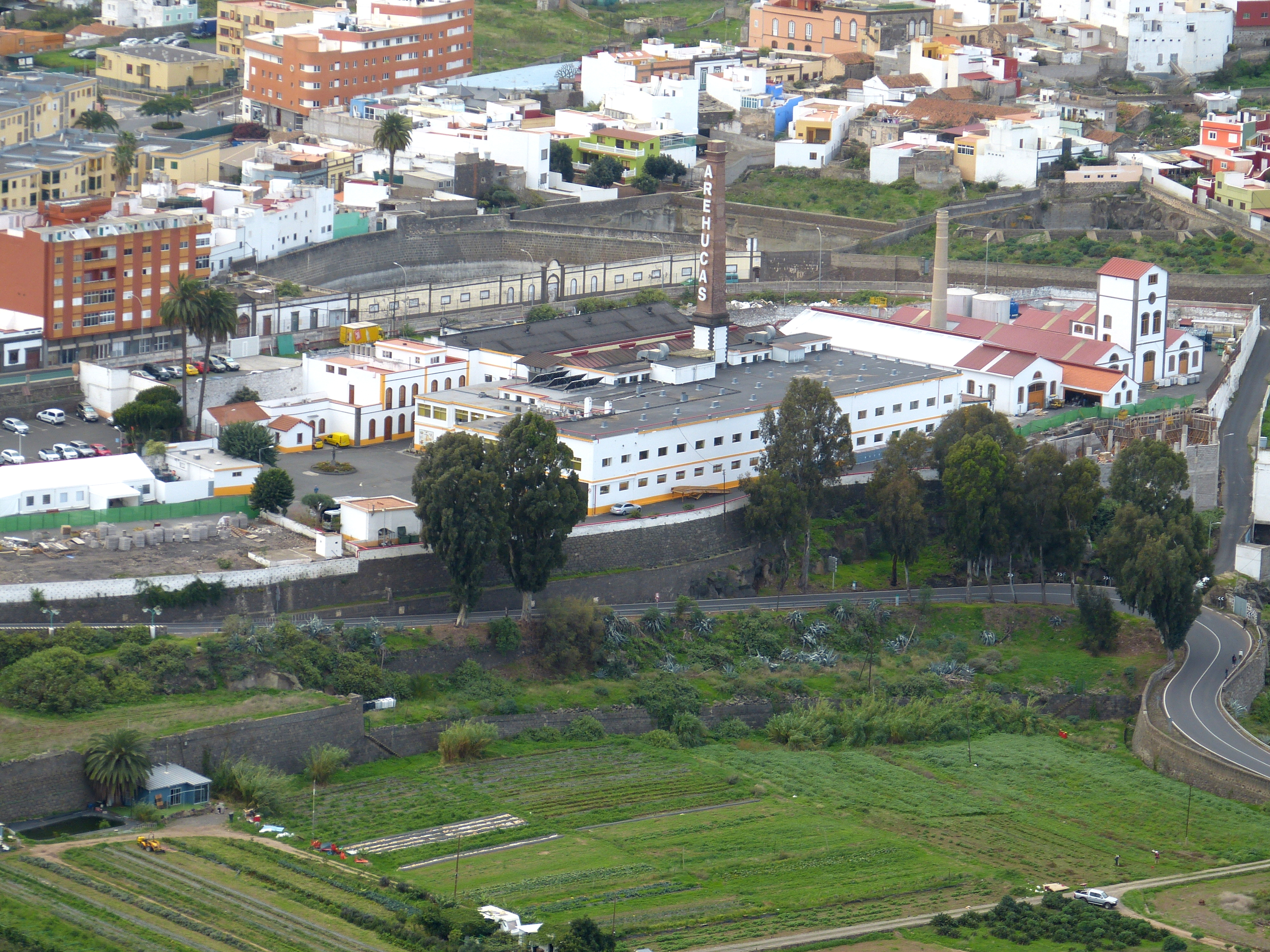 Montaña de Arucas ( Gran Canaria ) - View of Arehucas rum distillery ( Arucas ).